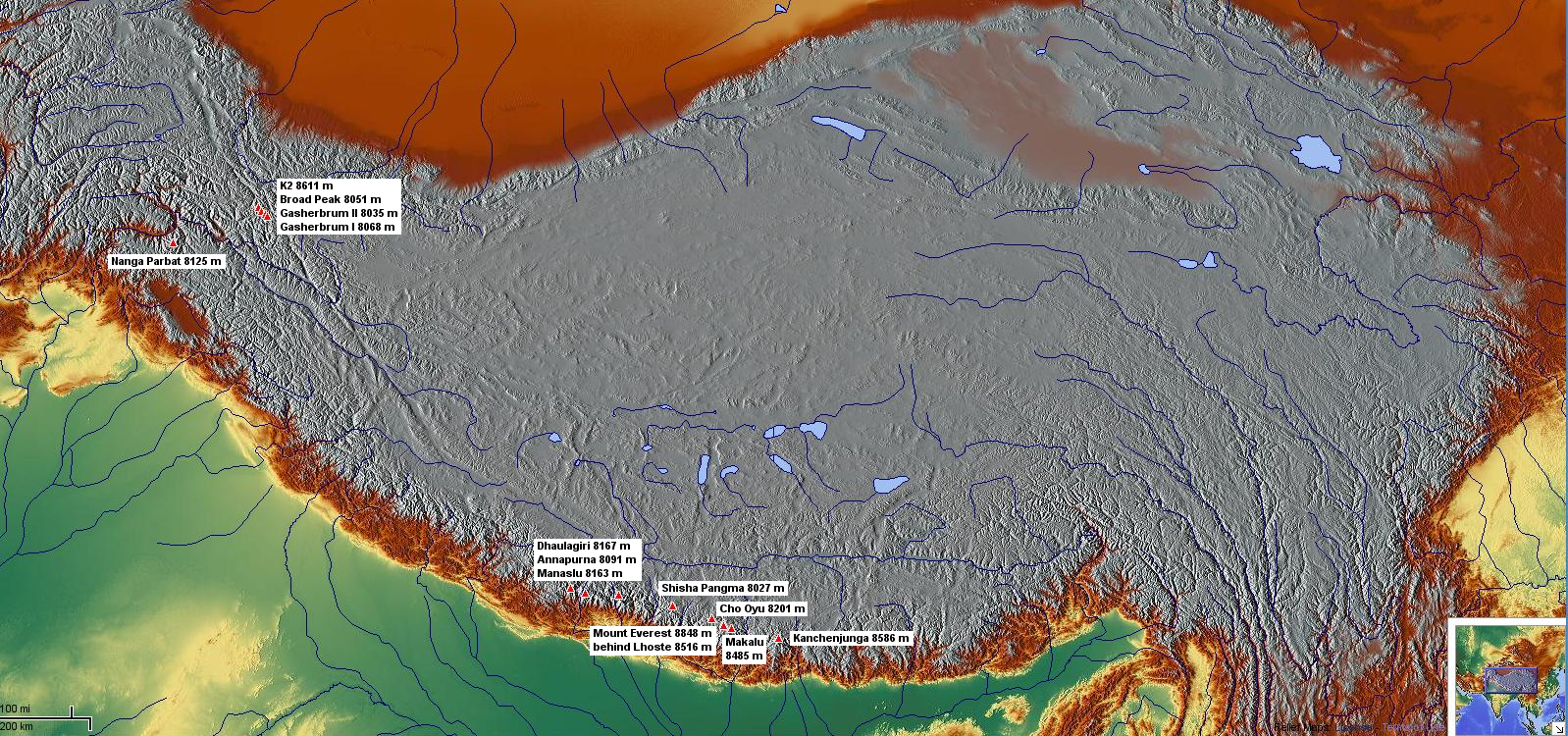 Map showing where the eight-thousanders are situated.